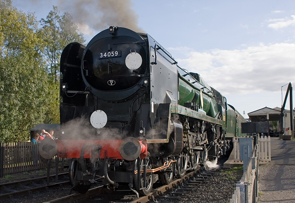 Rebuilt Battle of Britain Class 34059 Sir Archibald Sinclair preparing to leave Sheffield Park station on the Bluebell Line